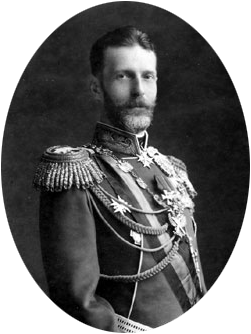 Grand Duke Sergei Alexandrovich of Russia (29 April (11 May) 1857 – 4 (17) February 1905)